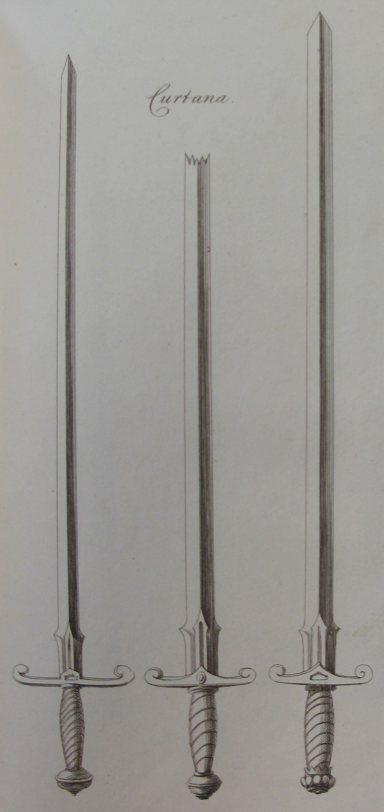 A Circumstantial Account of the Preparations for the Coronation of His Majesty King Charles the Second, and a minute detail of that splendid ceremony... from an original manuscript by Sir Edward Walker, Knight, Garter Principal King at Arms. London, 1820